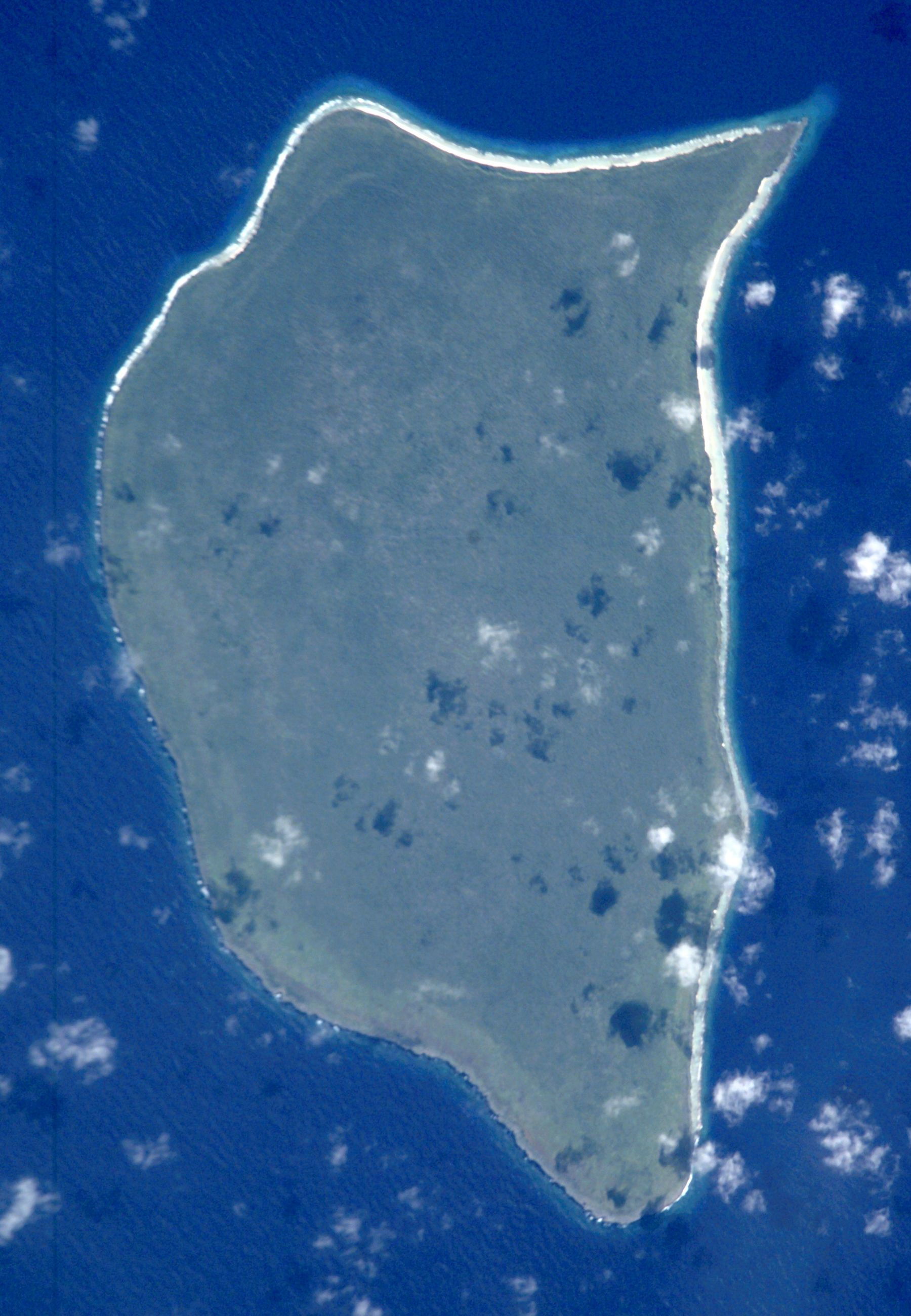 NASA astronaut image of Henderson Island (Pitcairn Islands) in the Pacific Ocean